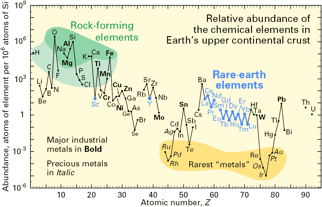 Relative abundance of elements in the Earth's upper crust. Not shown: noble gases, Tc(43), Pm(61), and all elements after Bi(83), except Th(90) and U(92).